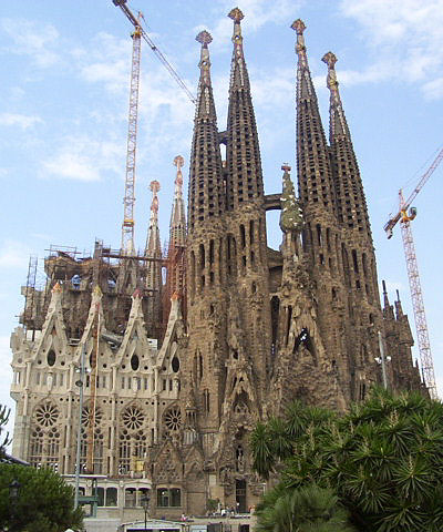 Overview of the Temple Expiatori de la Sagrada Familia in Barcelona.